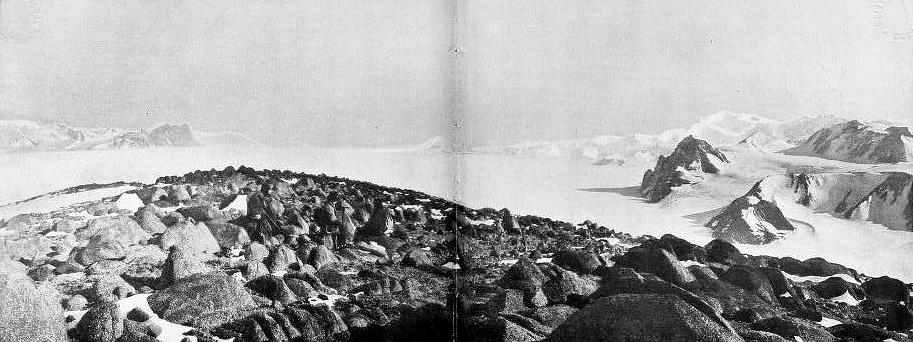 View from Mount Hope looking south down onto the Beardmore Glacier